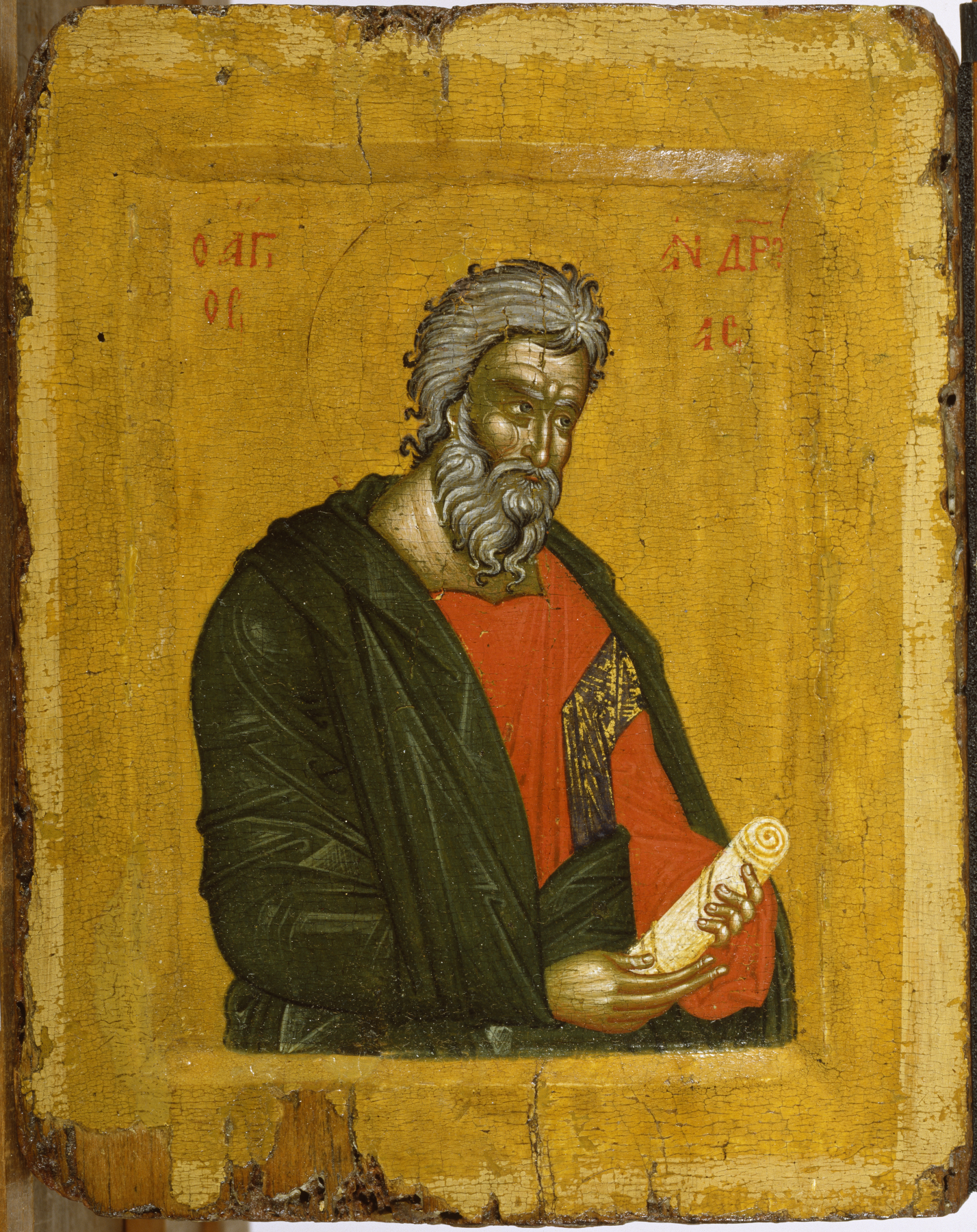 Saint Andrew, holding a scroll, looks intently to his left, indicating that the panel once may have formed part of a group of icons with Christ at the center. It may have been placed on the upper tier of an "iconostasis," the screen dividing the sanctuary from the nave in an Orthodox Church. The color scheme of the icon is unusual in its use of extremely bright colors for the saint's robe and a mustard yellow - instead of gold - for the background.